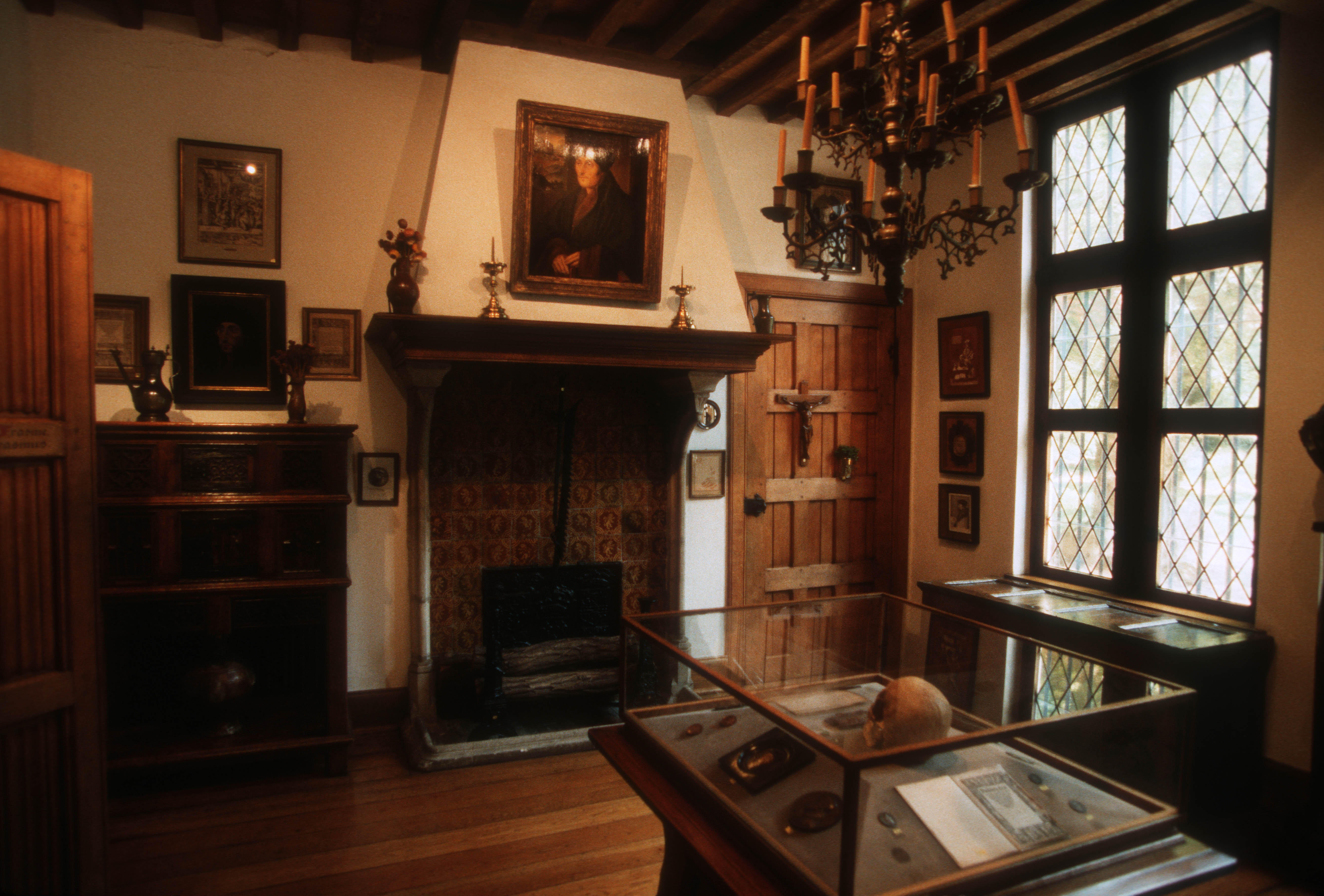 ROOM ON ERAMUS' HOUSE. THE PICTURE OVER THE MANTLE IS THAT OF ERASMUS